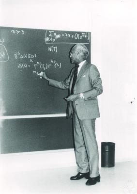 Mathematician Komaravolu Chandrasekharan, photographed in Vienna.